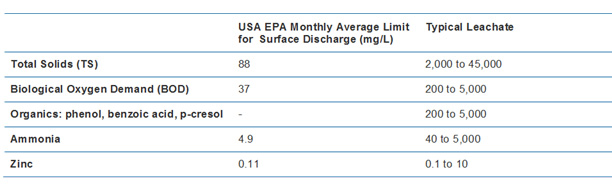 US Environmental Protection Agency (EPA) monthly average surface discharge limits for landfill leachate and typical characteristics. (See Code of Federal Regulations, 40 CFR Part 445.)